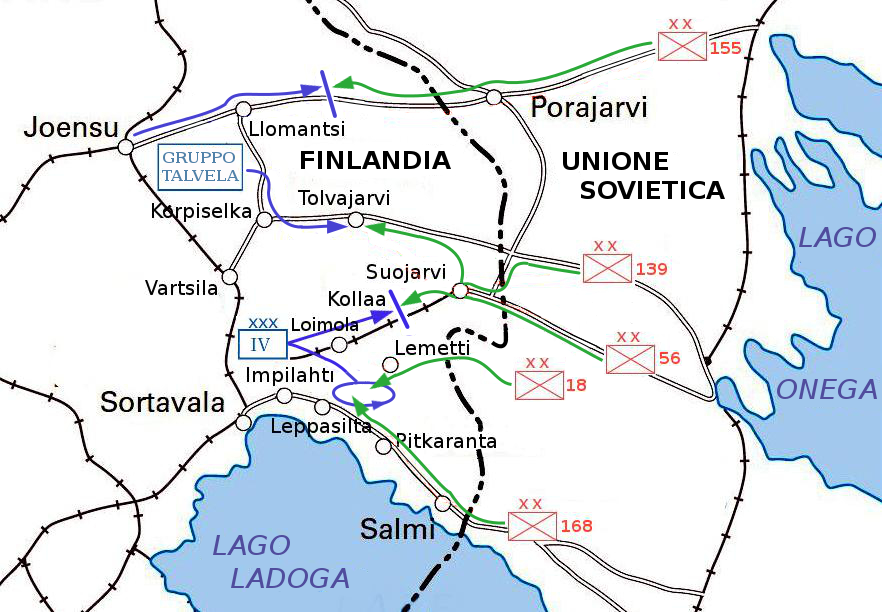 North Ladoga Soviet Offensive - Winter War